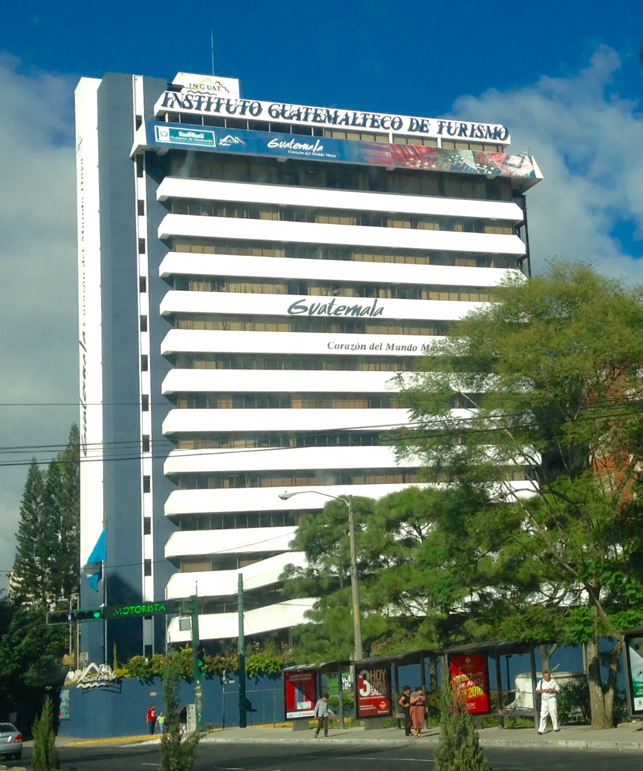 Edificio del instituto Guatemalteco de Turismo en 2016